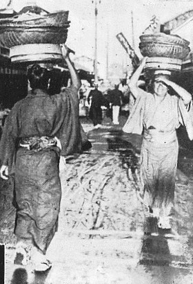 Otata (Peddlers of Ehime prefecture)